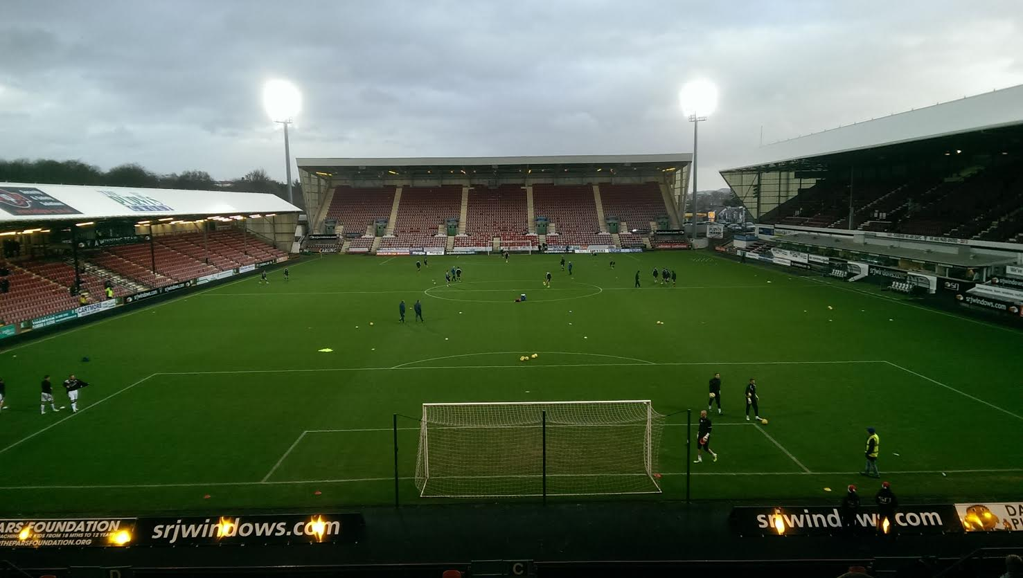 The interior of East End Park, Dunfermline from the Norrie McCathie stand